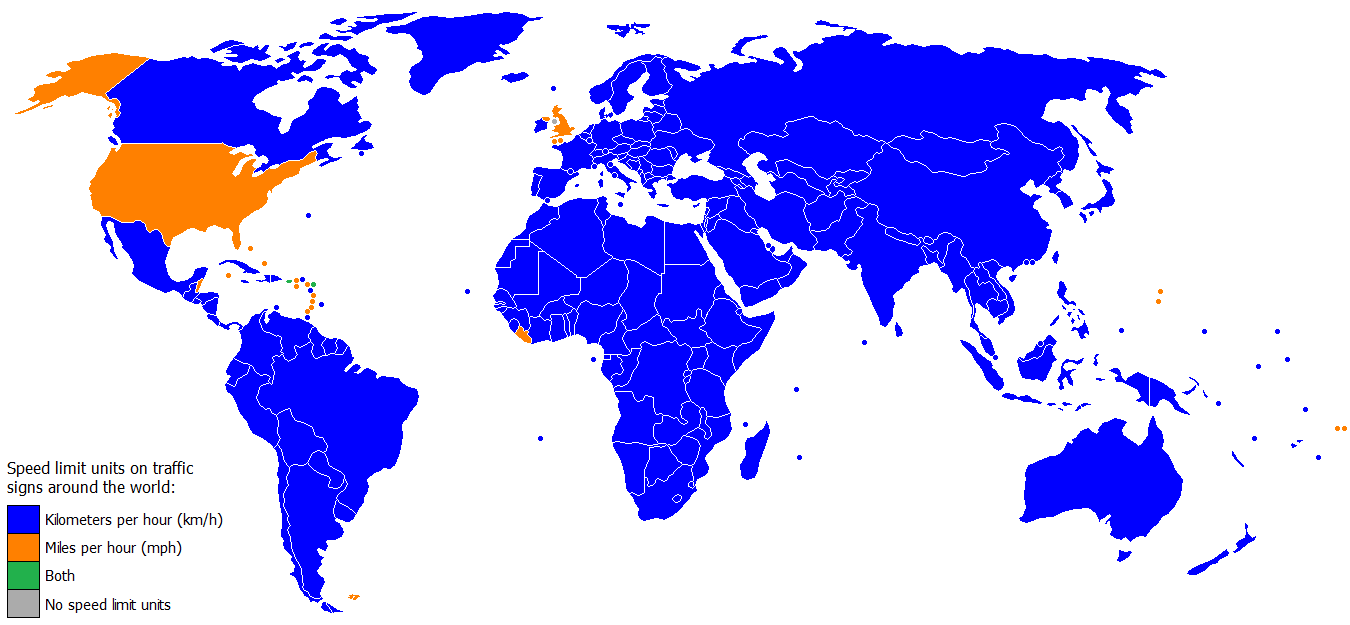 Speed limit units on traffic signs around the world: Kilometers per hour (km/h) Miles per hour (mph) Both No speed limit units